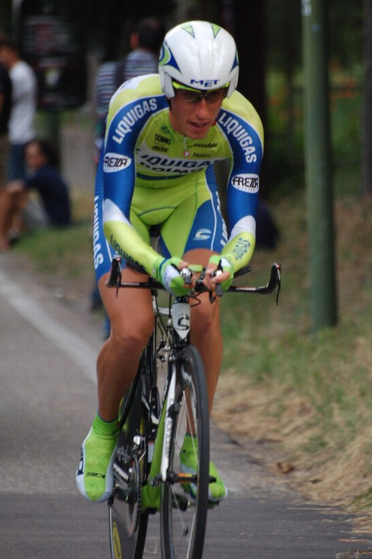 Robert Kiserlovski, Giro d'Italia 2010